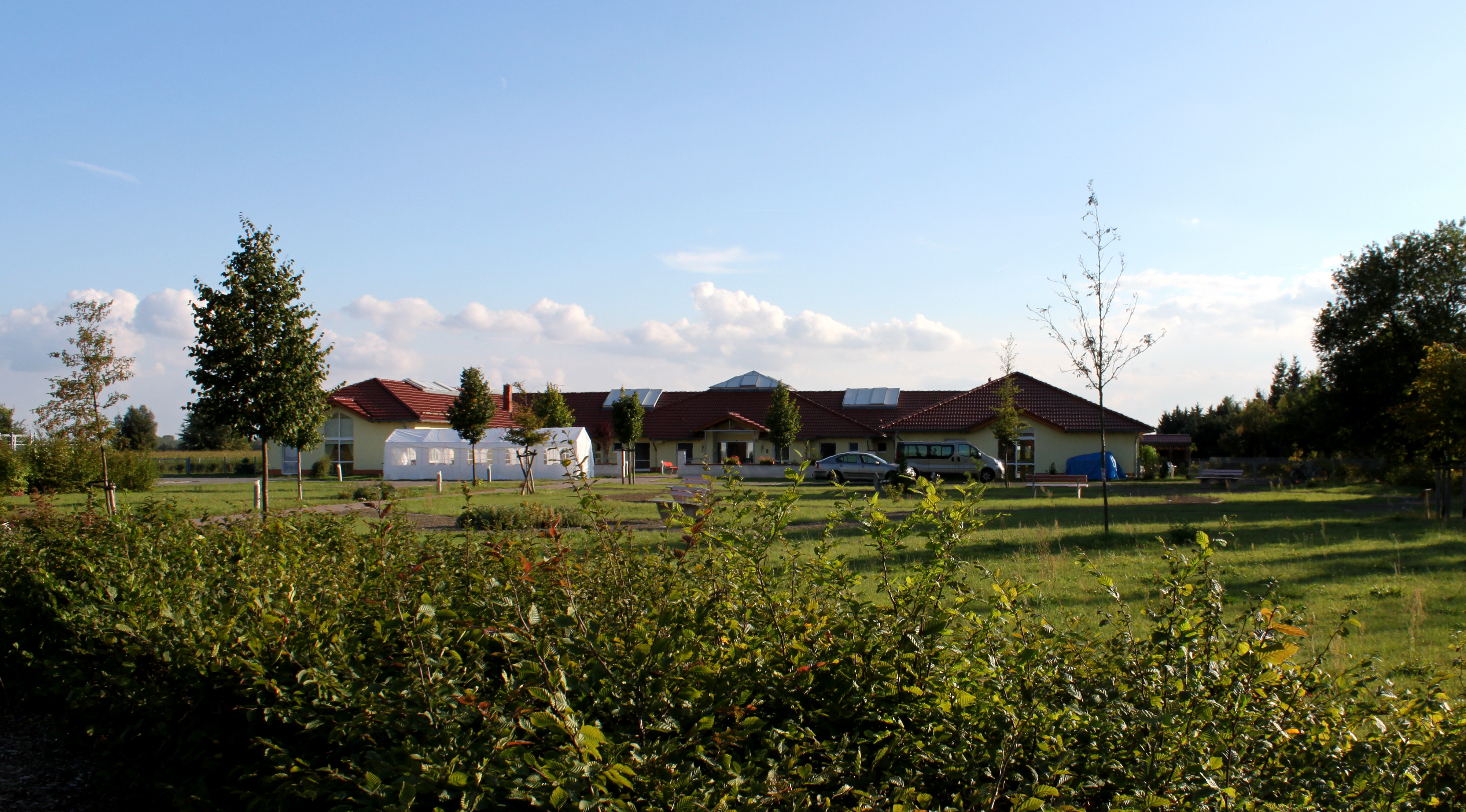 home for handycaped people